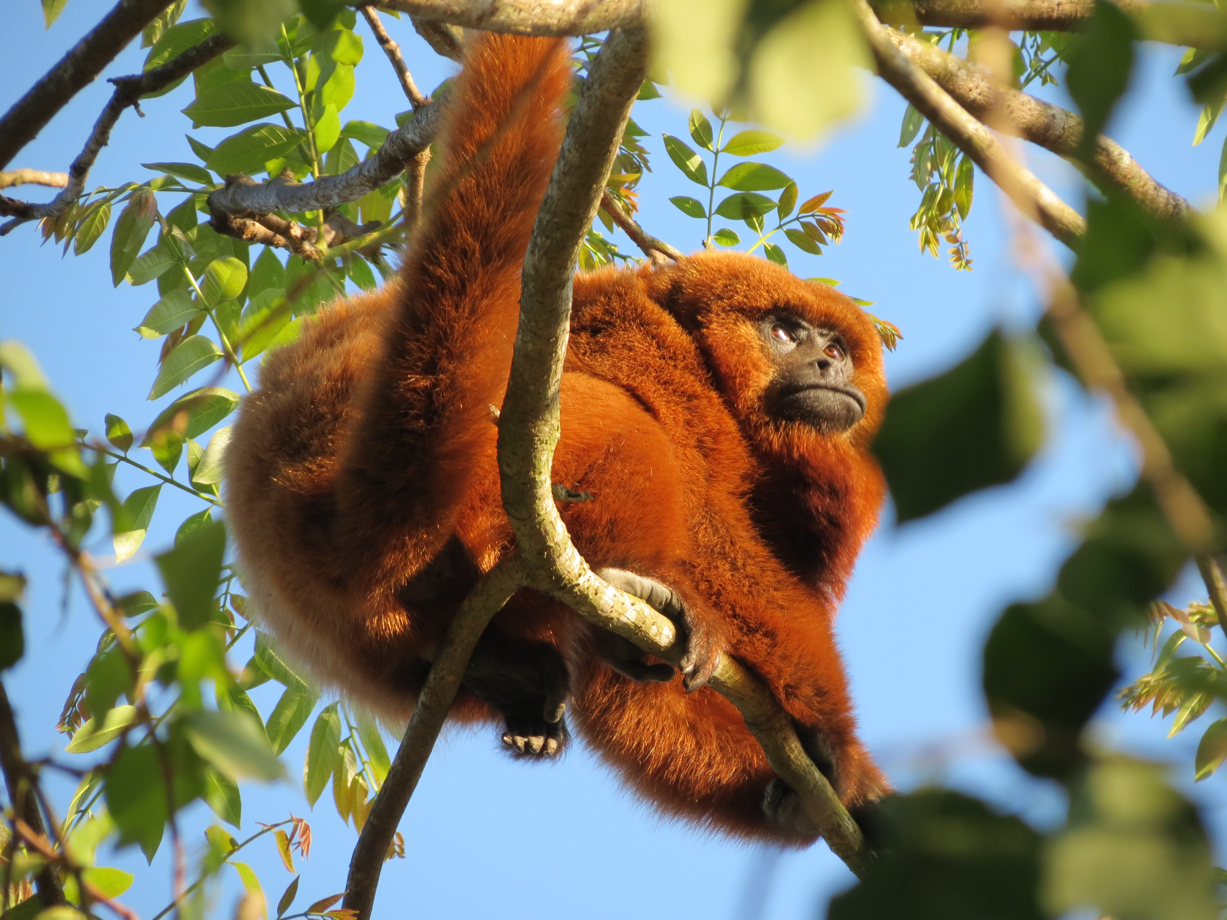 A male wild Southern brown howler monkey (Alouatta guariba clamitans) in São Paulo Zoo, resting on a branch.